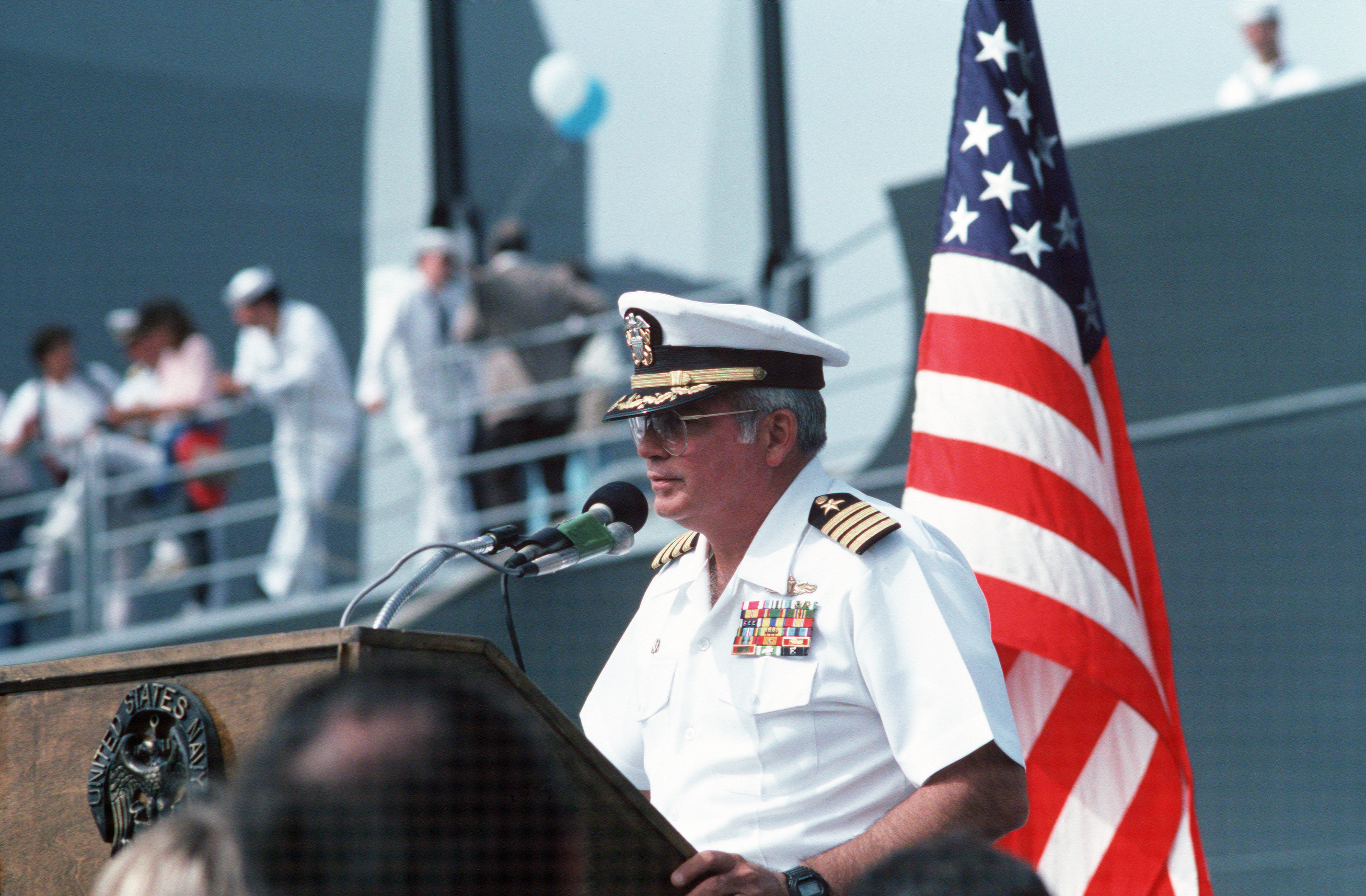 Captain (CAPT) Will C. Rogers III, commanding officer of the guided missile cruiser USS VINCENNES (CG 49), speaks during the welcome home ceremony held for the crew of the VINCENNES. The ship is returning from a six-month deployment to the Western Pacific, Indian Ocean and Persian Gulf.Location: SAN DIEGO, CALIFORNIA (CA) UNITED STATES OF AMERICA (USA)